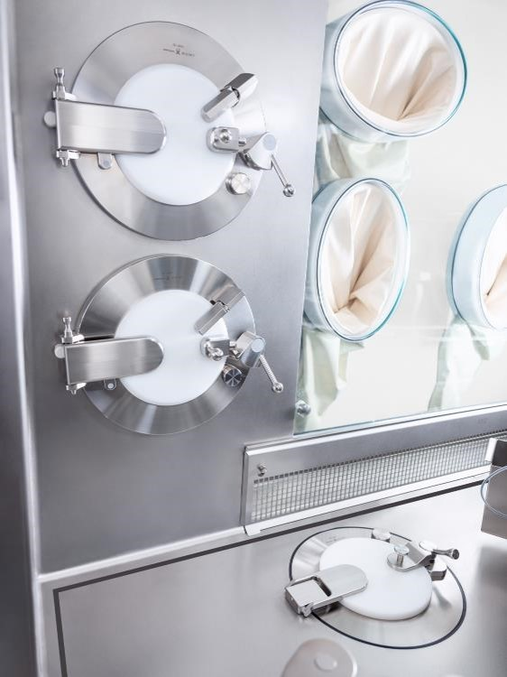 Alpha ports on an isolator